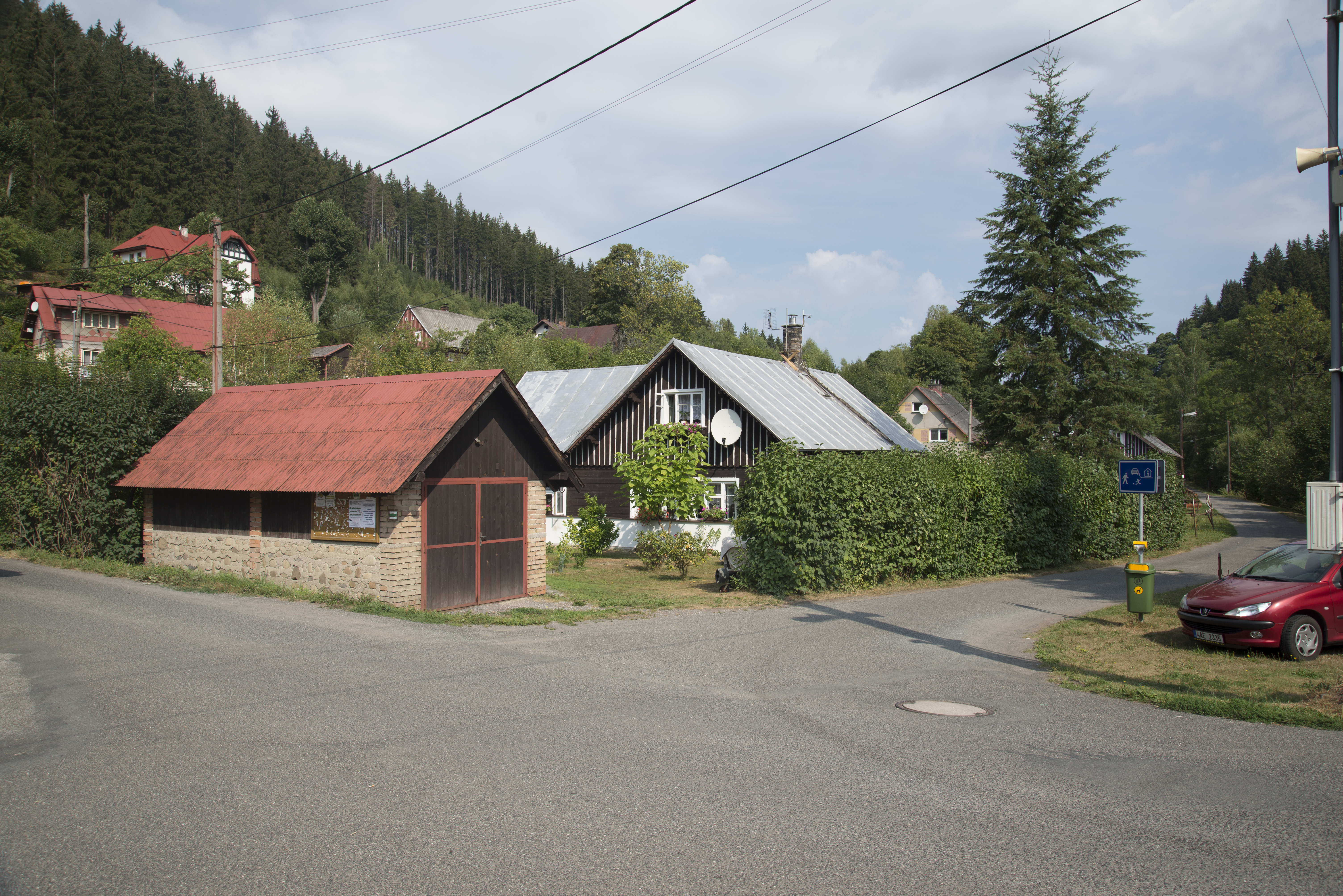 Blansko, part of the city Jablonec nad Jizerou, Semily District, LIberec Region